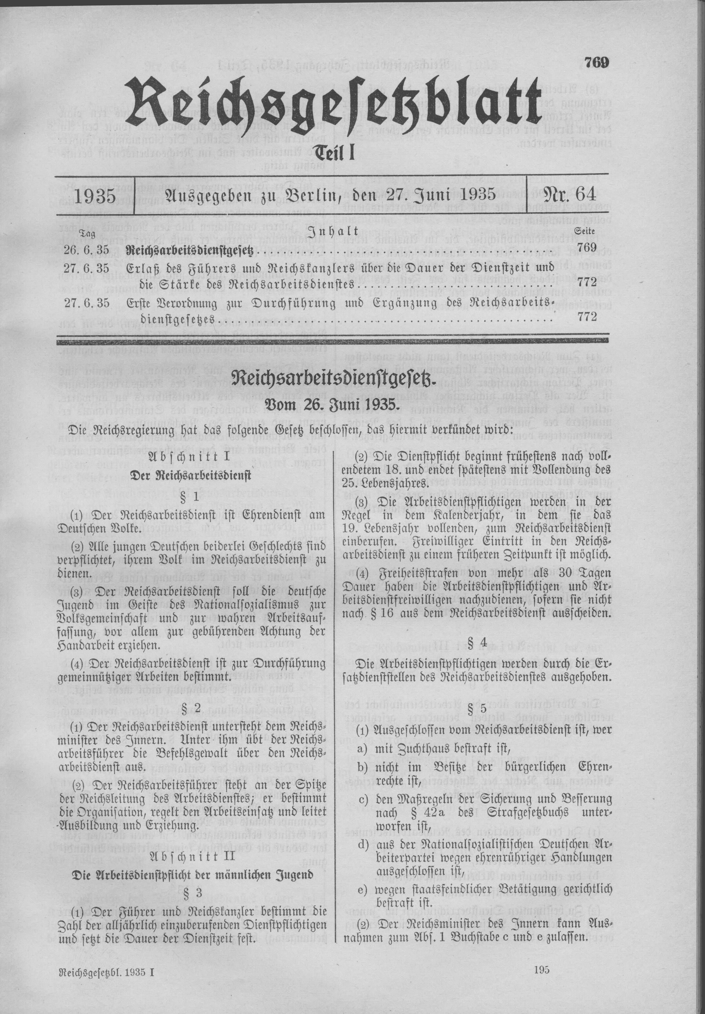 Scan from the Imperial Law Gazette of Germany, 1935, part 1